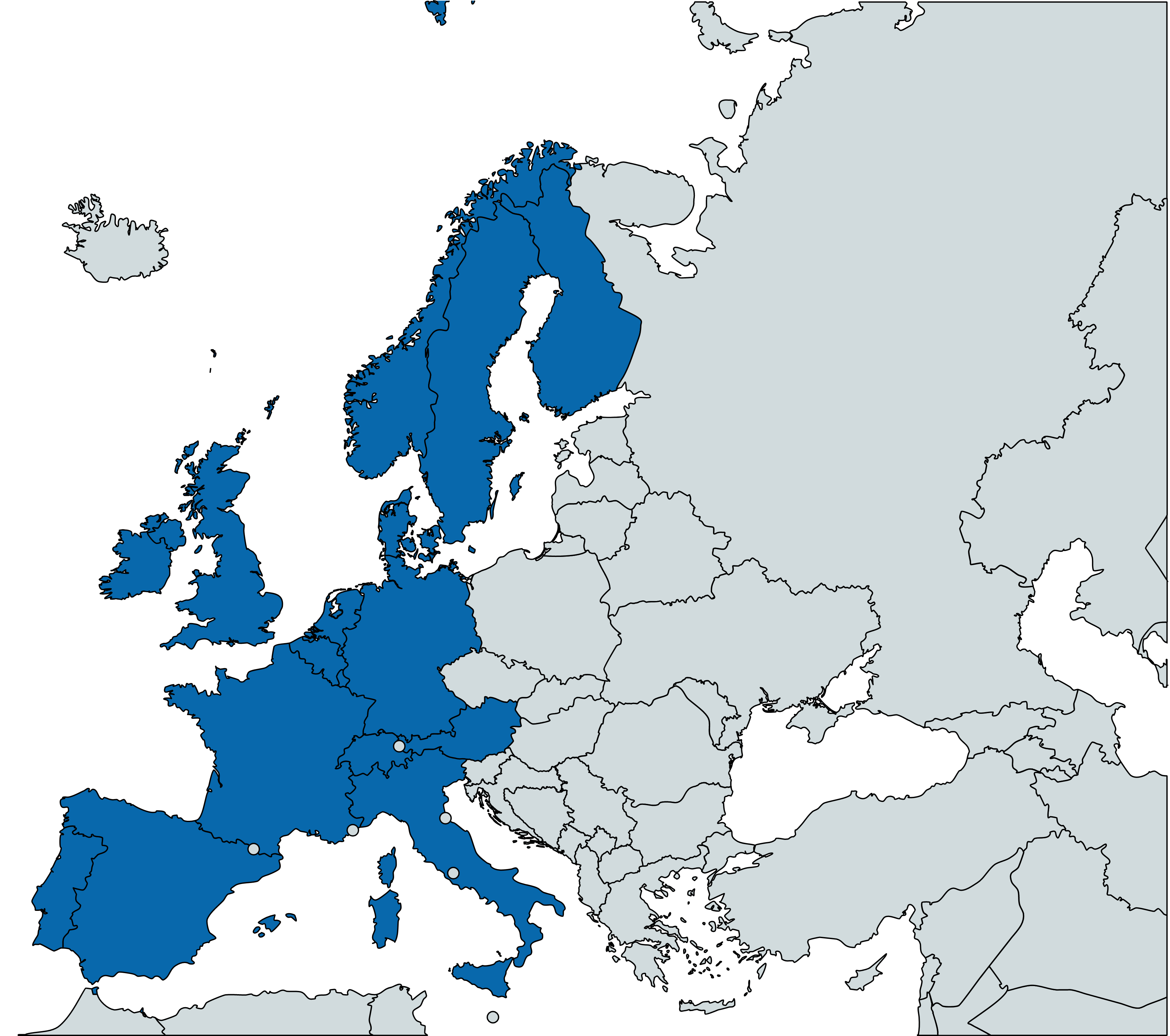 Map of countries in the S&P Europe 350 index as of Jan 21, 2019, created with